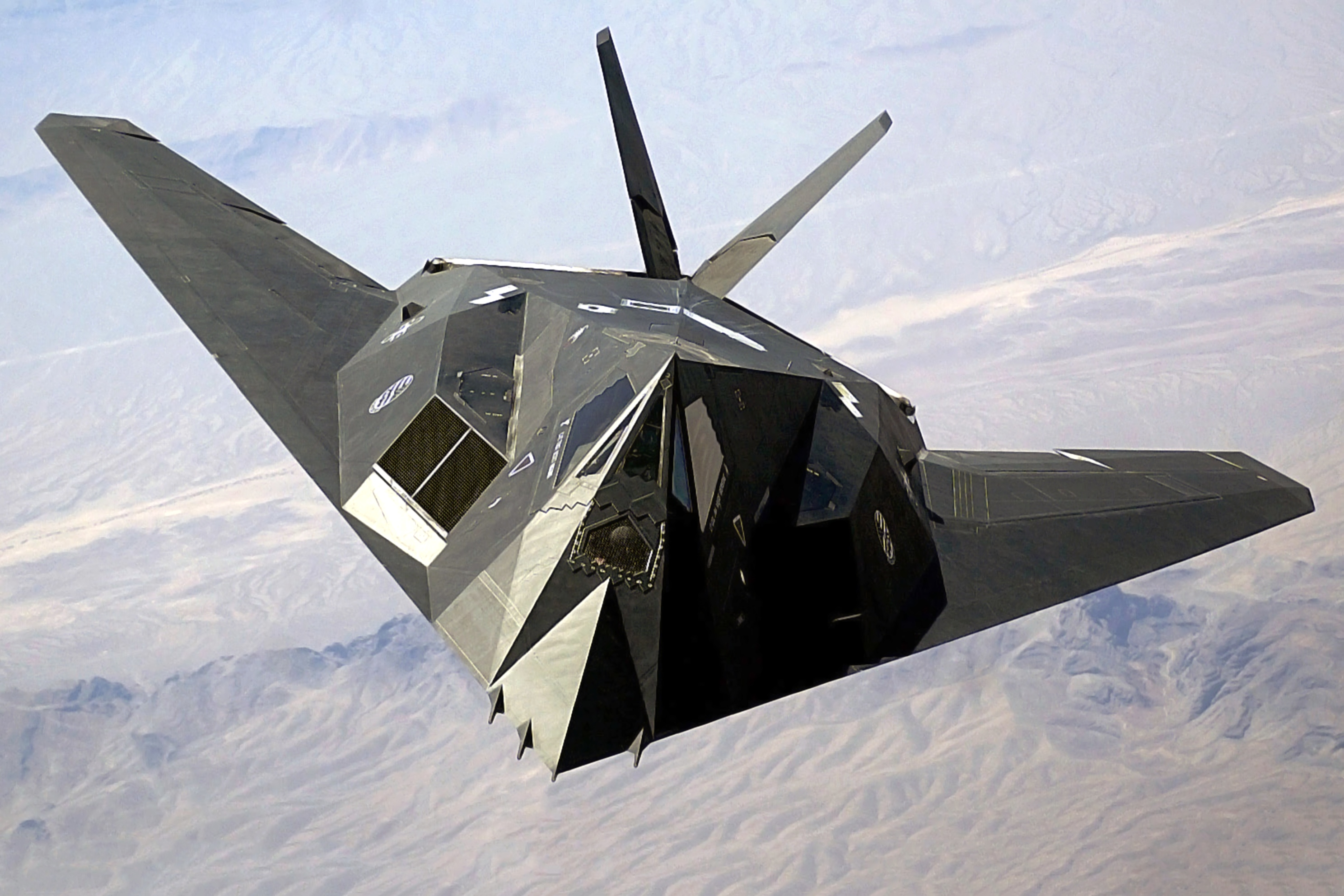 A US Air Force (USAF) F-117A Nighthawk Stealth Fighter aircraft flies over Nellis Air Force Base (AFB), Nevada (NV), during the joint service experimentation process dubbed Millennium Challenge 2002 (MC02). Sponsored by the US Joint Forces Command (USJFCOM), the MC02 experiment explores how Effects Based Operations (EBO) can provide an integrated joint context for conducting rapid, decisive operations (RDO).